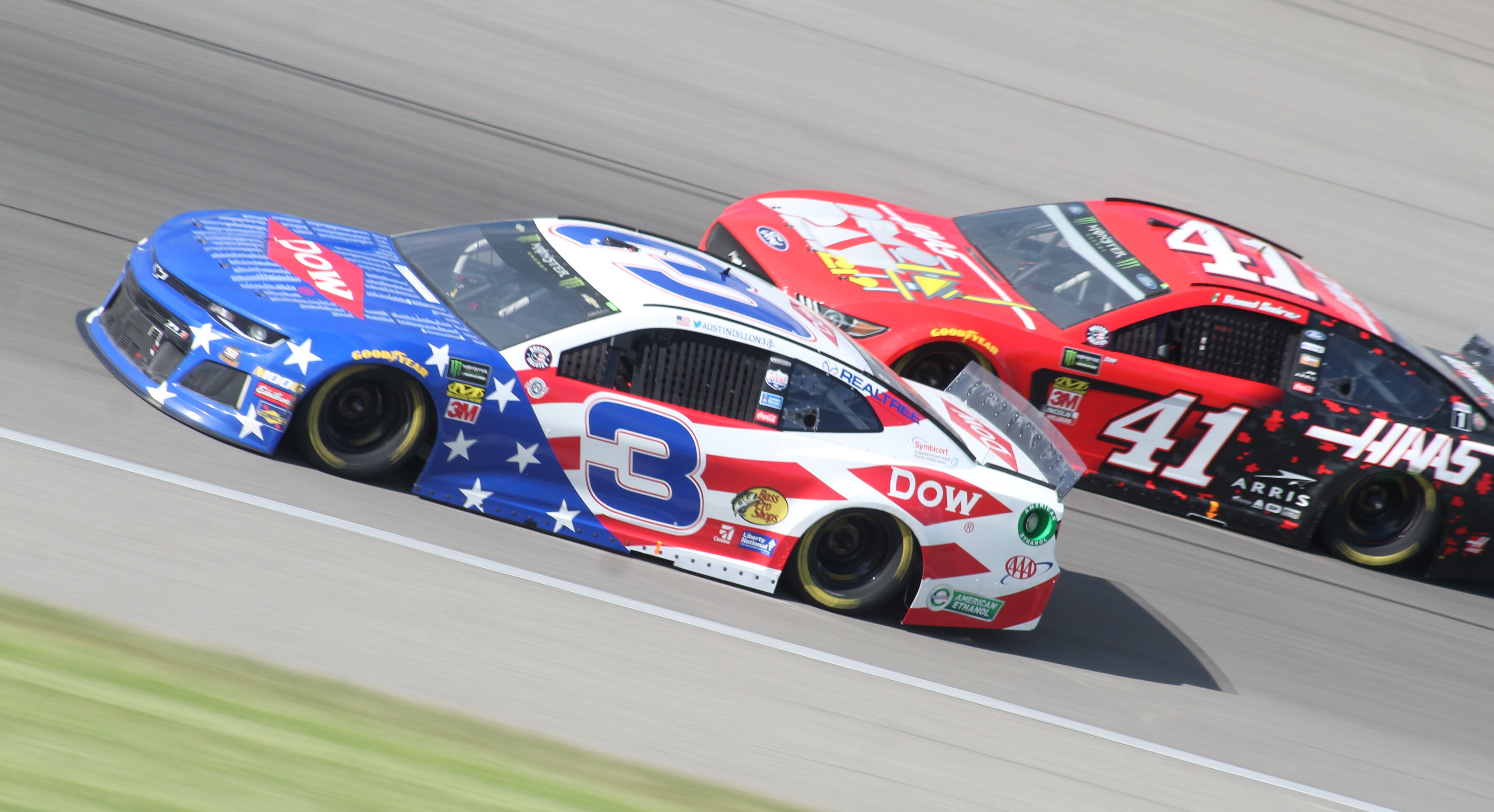 2019 FireKeepers Casino 400